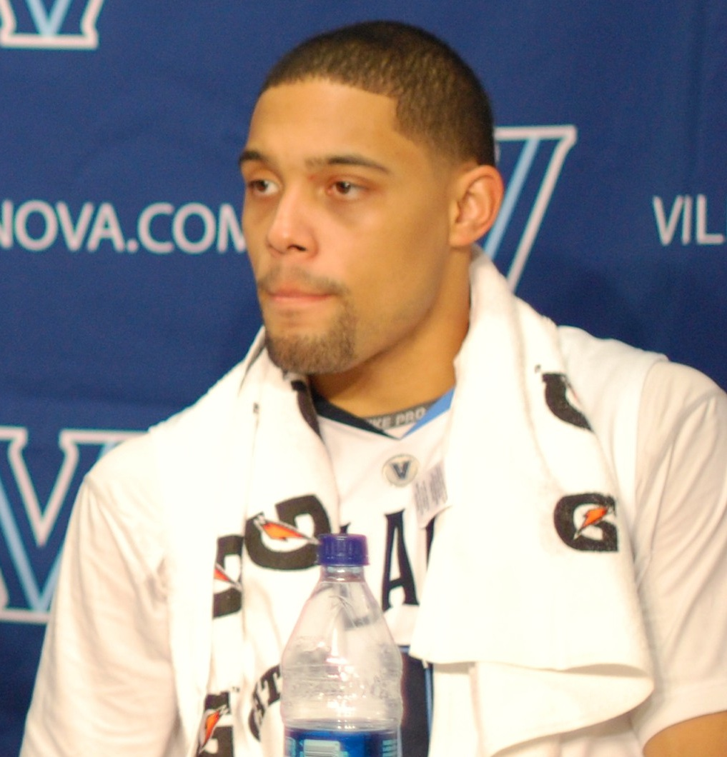 Scottie Reynolds of Villanova This file has been extracted from another file: Jay Wright Villanova.jpg